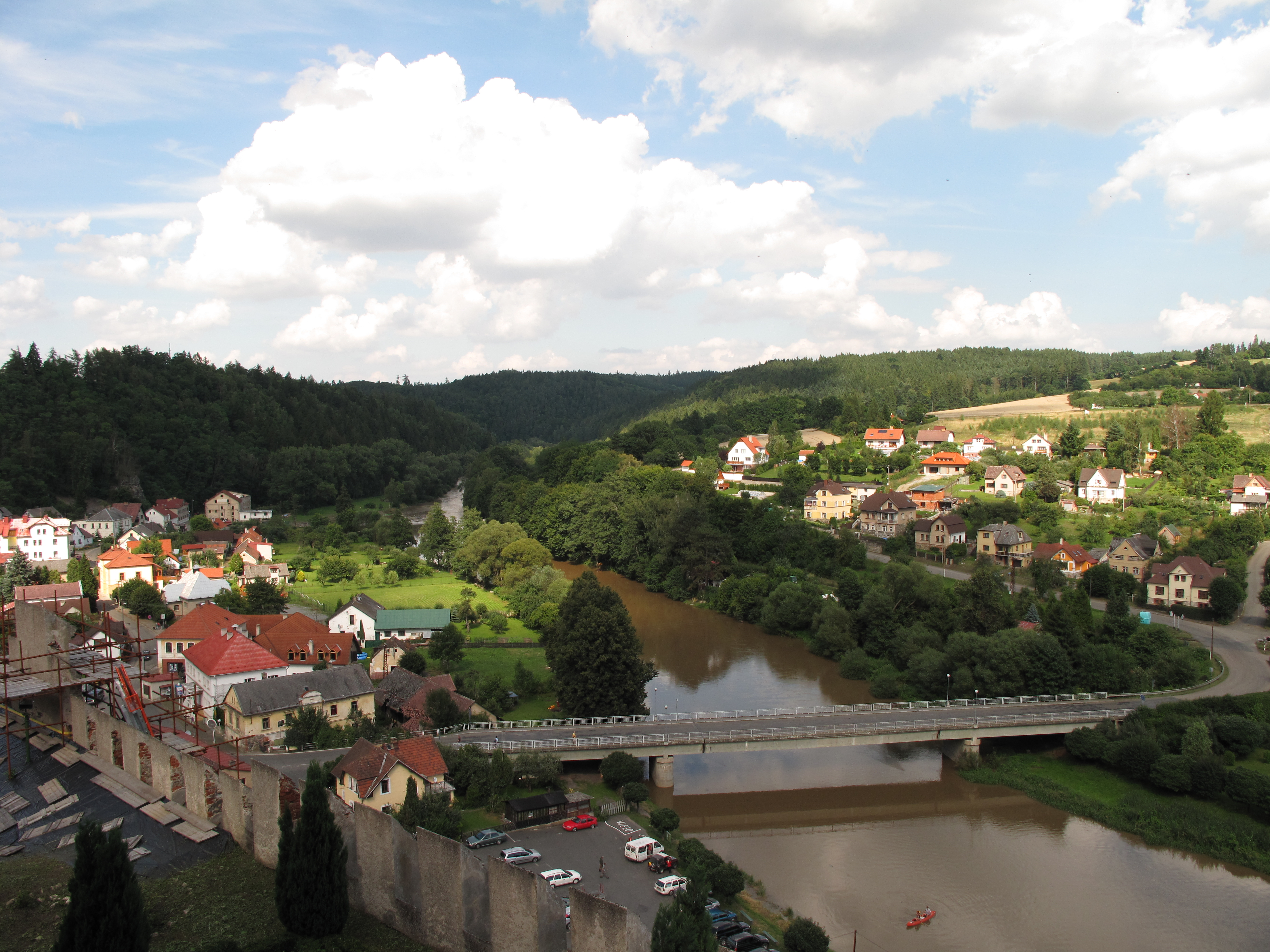 This photograph was taken within the scope of the second year of the 'Czech Municipalities Photographs' grant.